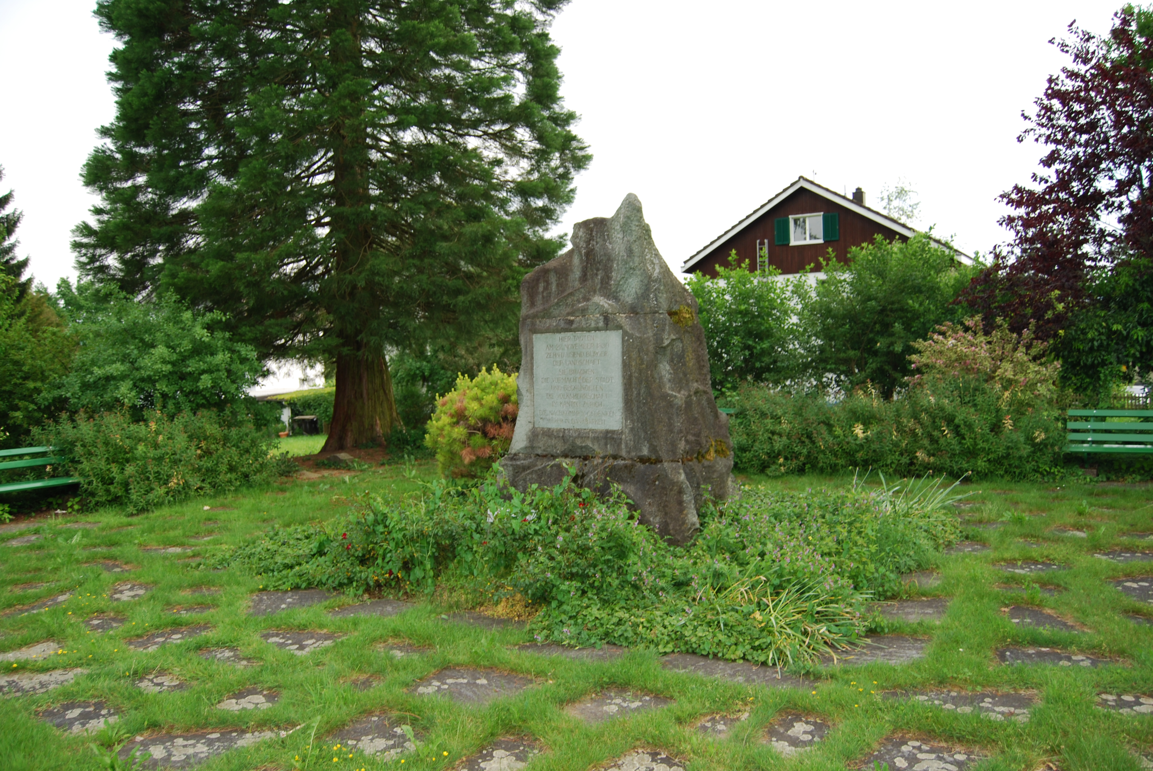 Day of Uster memorial, city of Uster, canton of Zürich, SwitzerlandEsperanto: Ustertago-memorejo, urbo Uster, Kantono Zuriko, Svislando